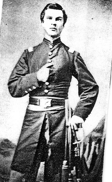 Capt. George W. Brush Union Army Civil War 1863